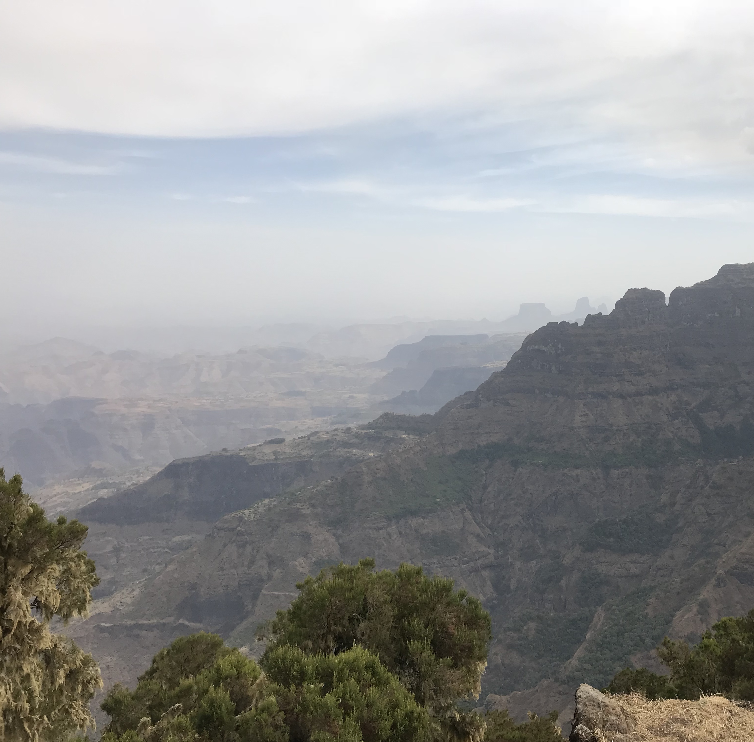 Simien National Park hiking tour